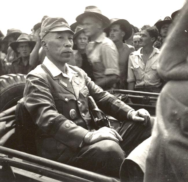 LABUAN ISLAND, NORTH BORNEO. 1945-09-10. SUPREME JAPANESE COMMANDER IN BORNEO, LIEUTENANT GENERAL MASAO BABA, SEATED IN A JEEP AT LABUAN AIRSTRIP ON HIS WAY TO SIGN THE OFFICIAL SURRENDER DOCUMENT AT 9TH DIVISION HEADQUARTERS.